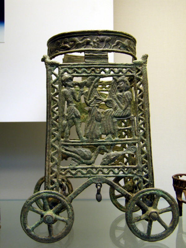 Late Bronze Age bronze stand, Cyprus (British Museum)